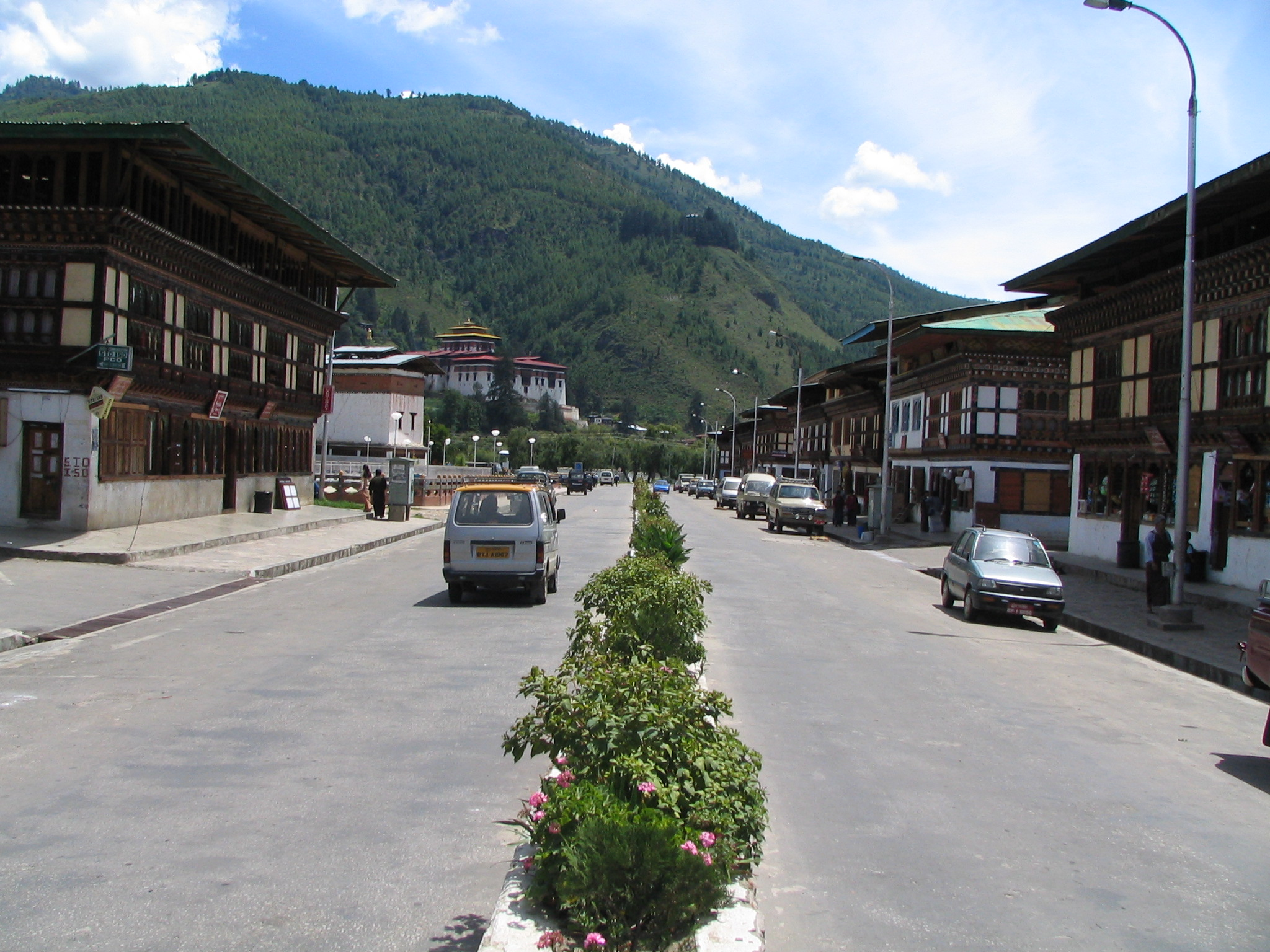 Paro, Bhutan Douglas J. McLaughlin, September 5, 2006